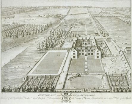 "Heanton Hall and Park in Devonshire, the Seat of the Right Hon.ble Robert Lord Walpole Ld. Lieutenant of the County of Devon and Knight of the Most Hon.ble Order of the Bath". Engraving by William Henry Toms; published in Badeslade, T. and Rocque, J., Vitruvius Brittanicus, Vol.4, London, 1739, plates 73/4. This was the original Heanton Satchville in Petrockstowe parish. The house is now lost, but the name has been transferred to a nearby mansion in the next parish of Huish, the seat of Lord Clinton.